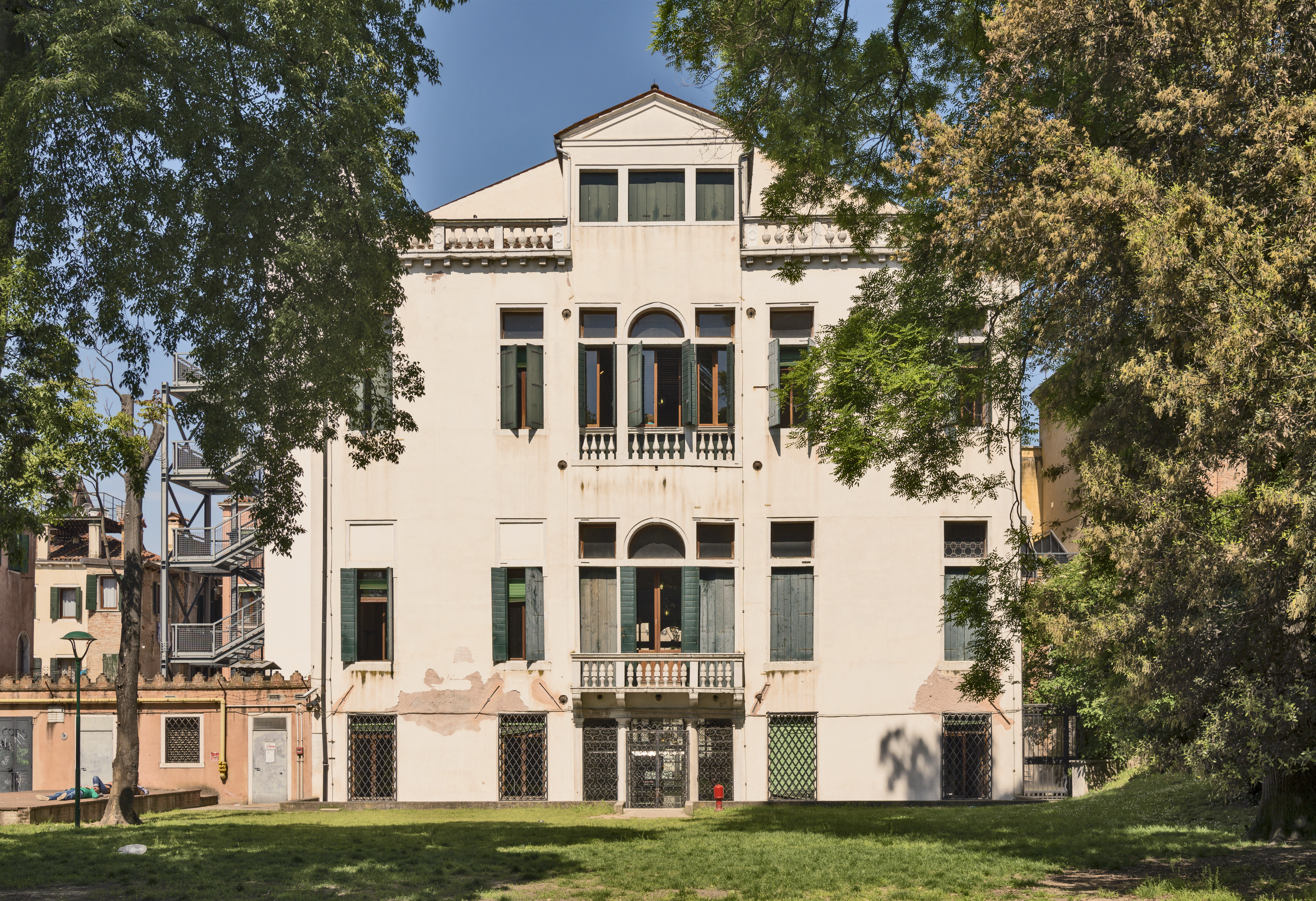 Palazzo Savorgnan Venice, rear facade view from the garden.